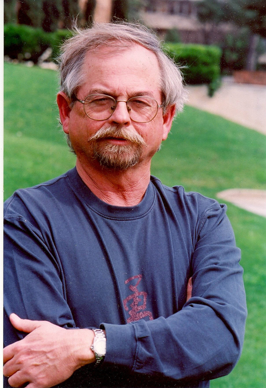 Photo of H. Palmer Hall